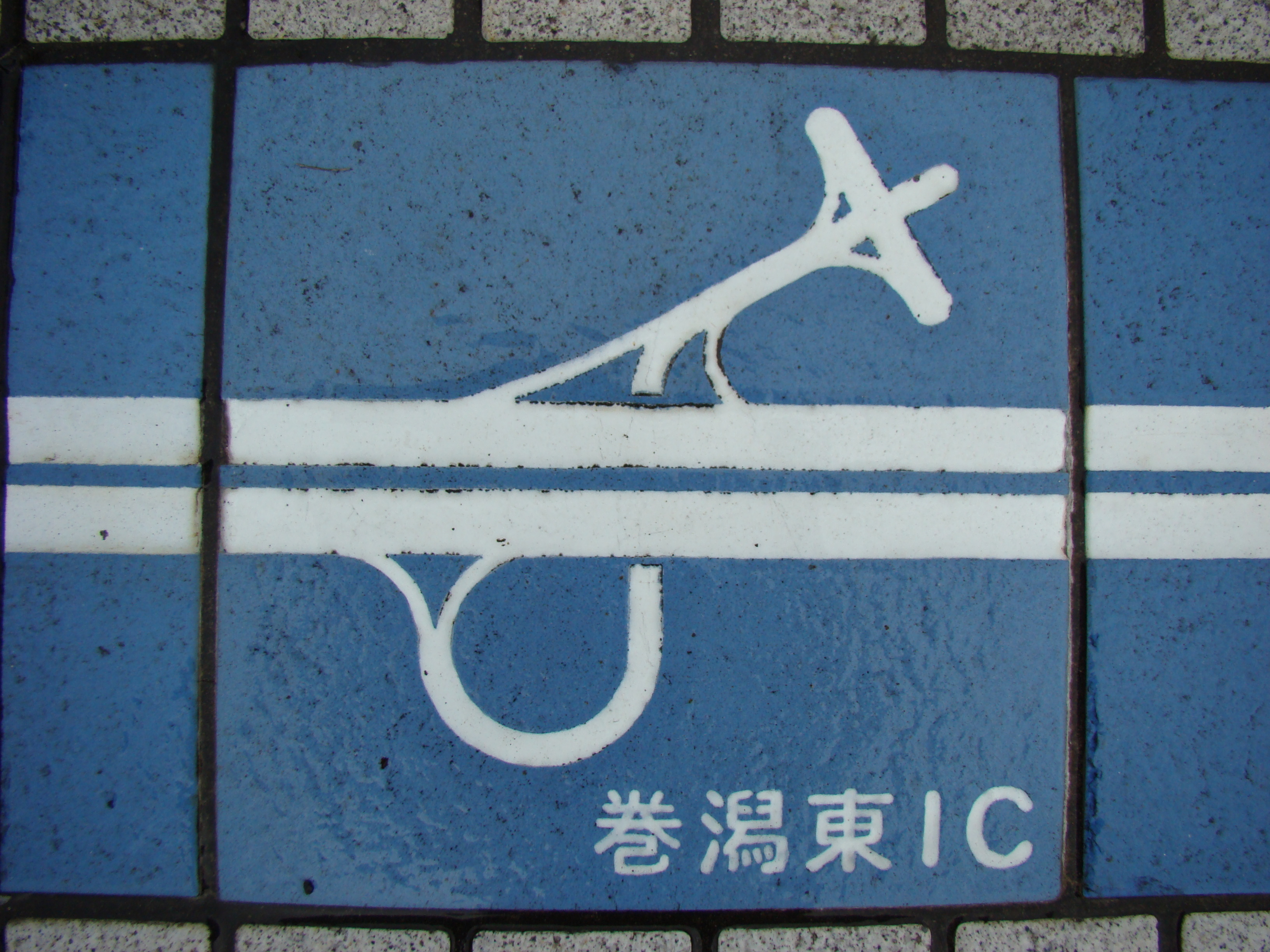 The tile which designed a shape of the Maki Katahigashi Interchange（Hokuriku Expressway）（There is this tile in Hokuriku Expressway Nadachi-Tanihama Service Area.）. Place - Chayagahara,Joetsu City,Niigata Prefecture,Japan Date - August 9, 2009 Format - JPEG, 3264x2448pixel, 24bit colors. Photographer - NALA Wiki (talk)